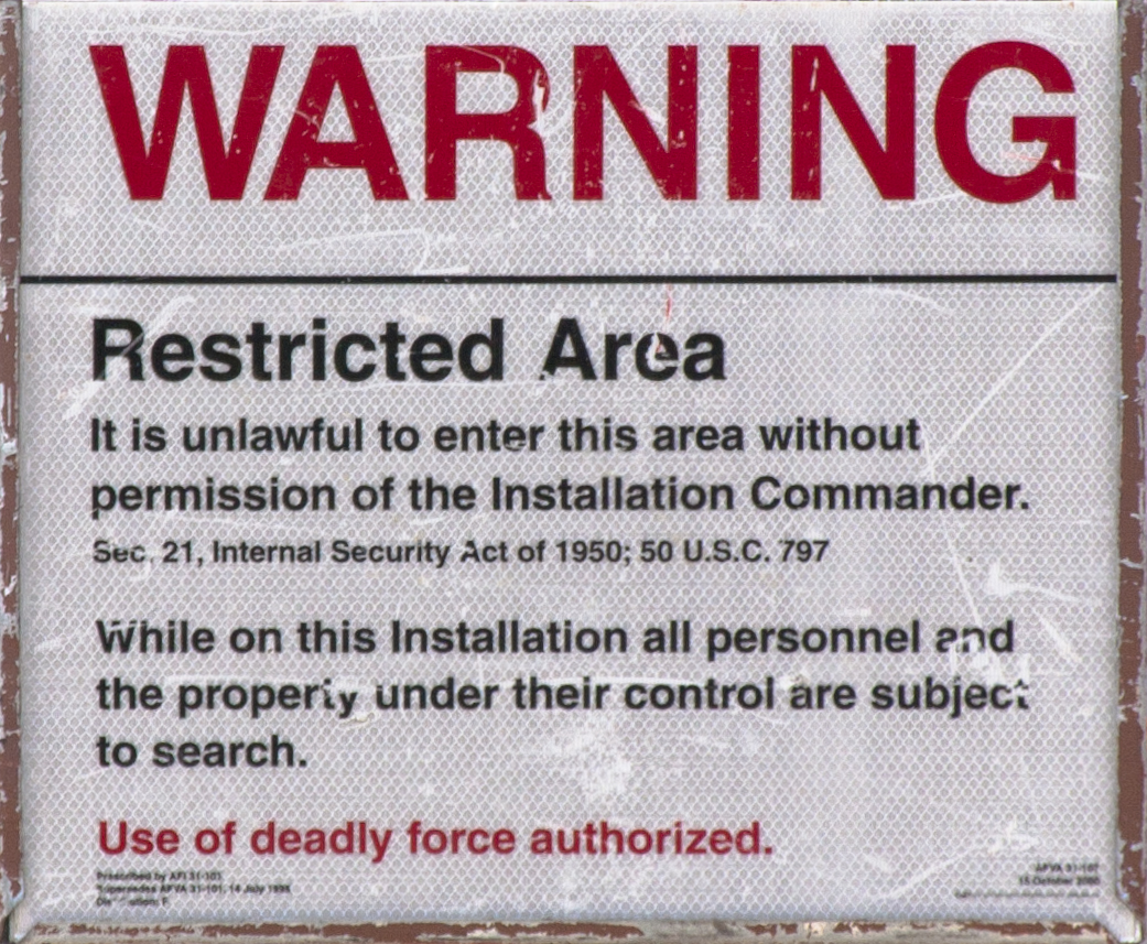 Use of Deadly Force Authorized